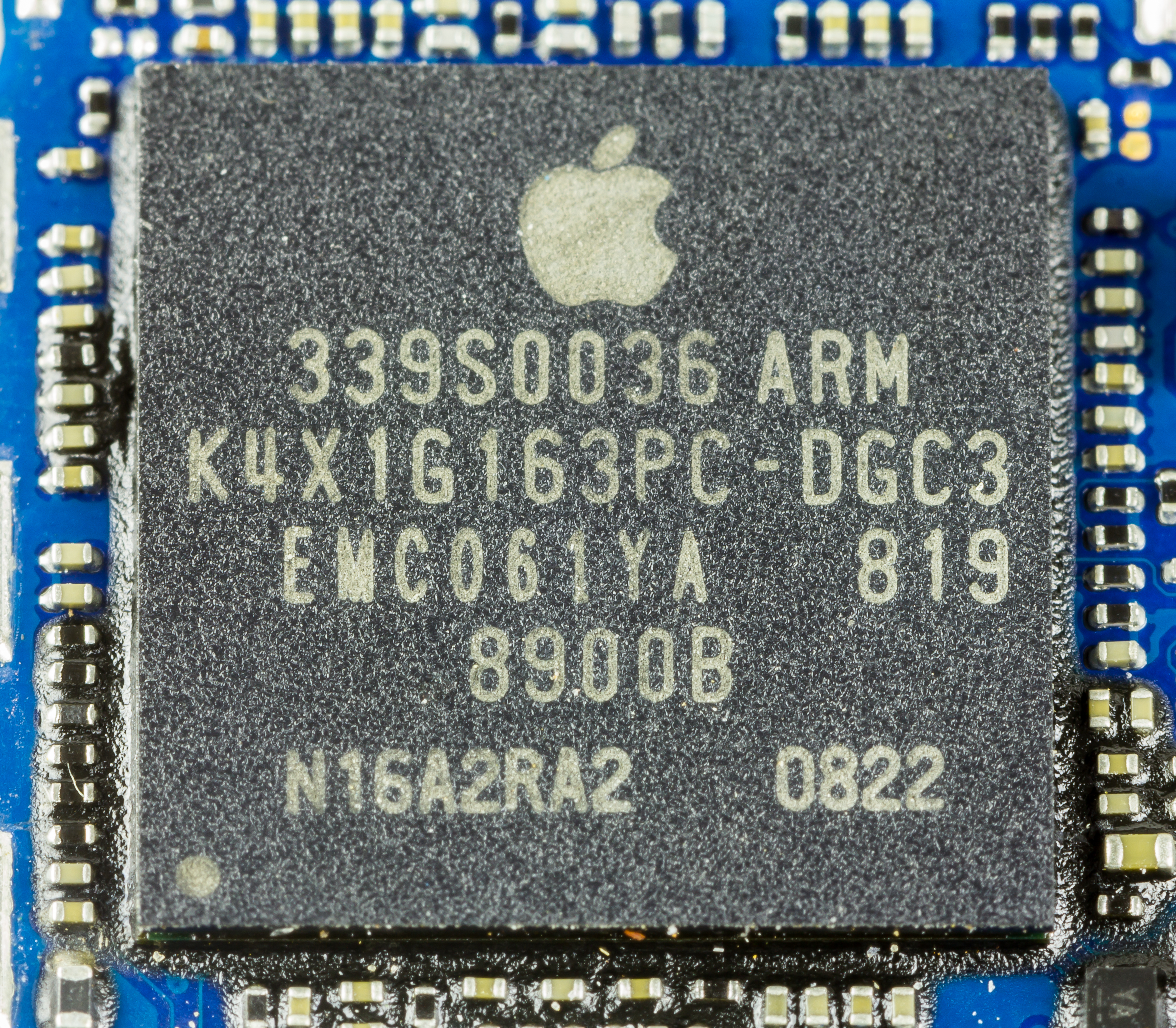 IPhone 3G teardown - Apple 339S0036 ARM. Samsung DDR is on the chip (K4X1G163PC-DGC3)